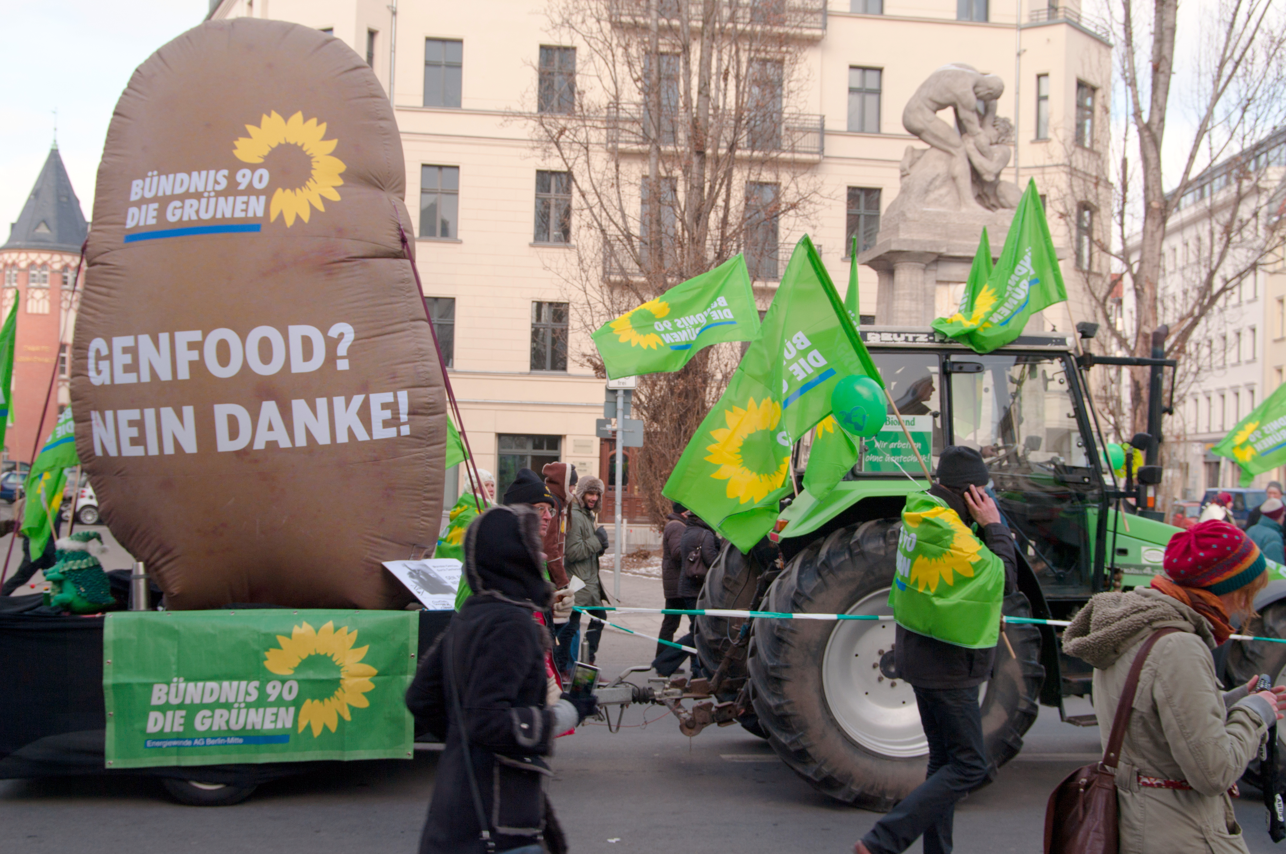 "Wir haben es satt!" (We are fed up) demonstration Berlin 2013